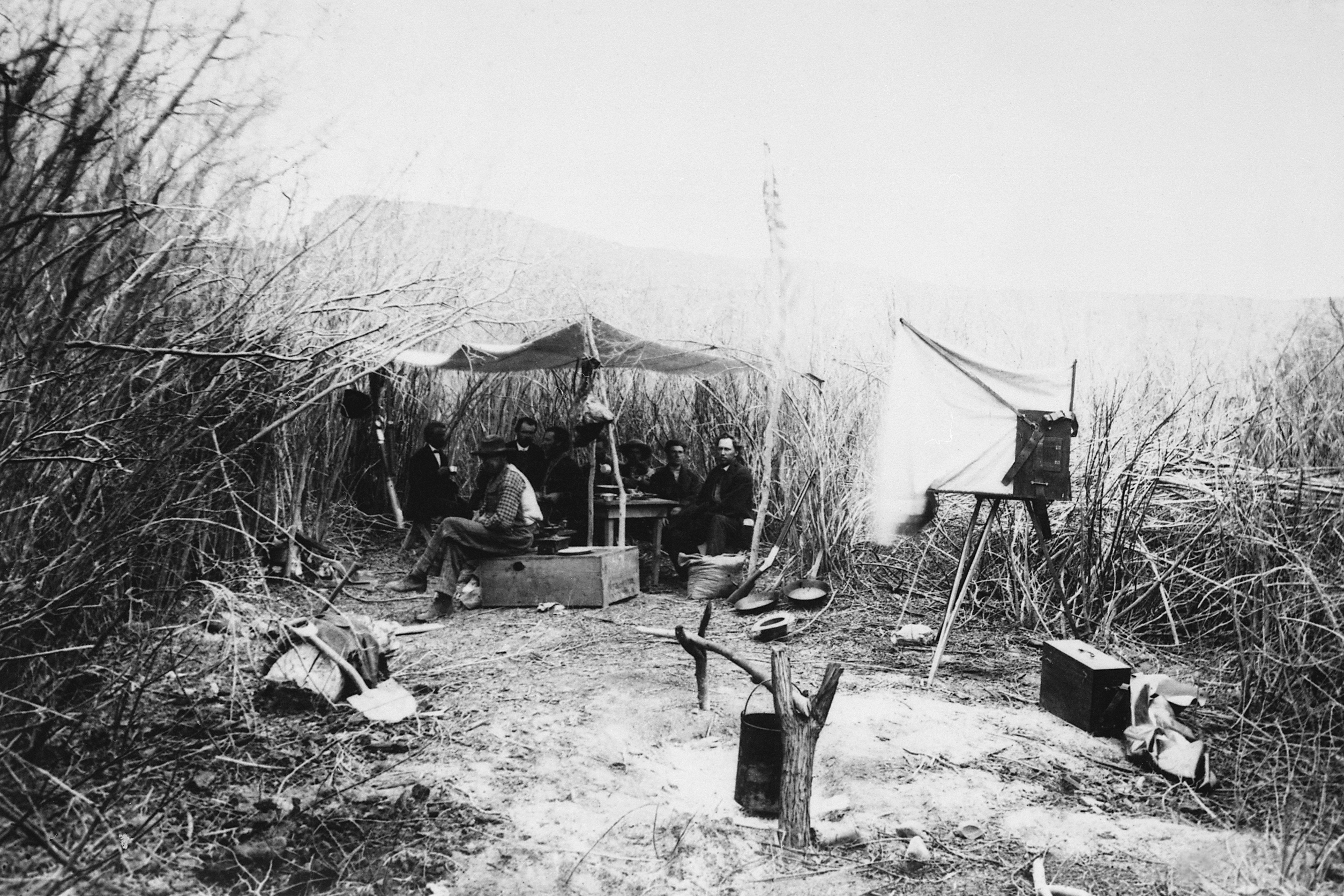 First camp of the John Wesley Powell expedition, in the willows, Green River, Wyo. Terr.